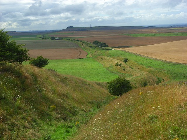 Wansdyke near Bishops Cannings Looking down a relatively steep section of the defensive earthwork as it descends from the northern part of Tan Hill. It can be seen making its way across the landscape towards Morgan's Hill.